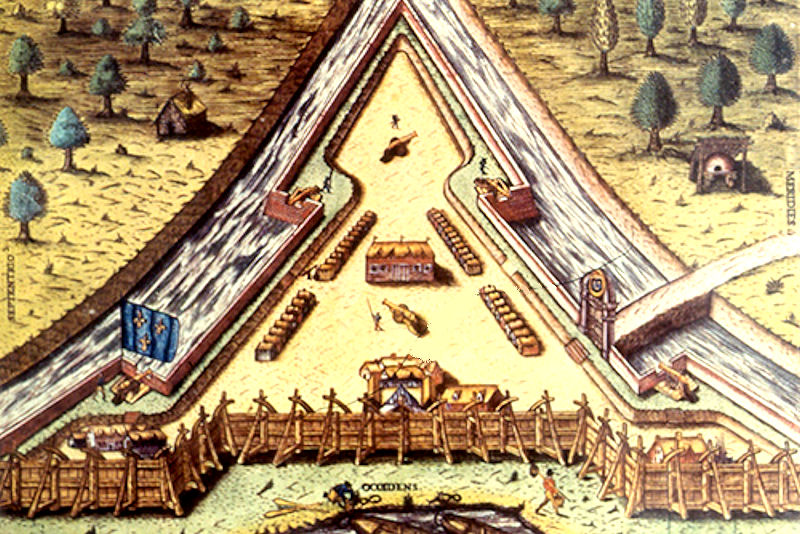 Colored engraving of a view of French Fort Caroline on the St. Johns River, from "Brevis narratio eorum quae in Florida Americae Provicia Gallis acciderunt, secunda in allam Navigatione" engraved by Theodore de Bry (1528-98) and published in Frankfurt, 1591, after a drawing by Jacques Le Moyne de Morgues (1533-88)